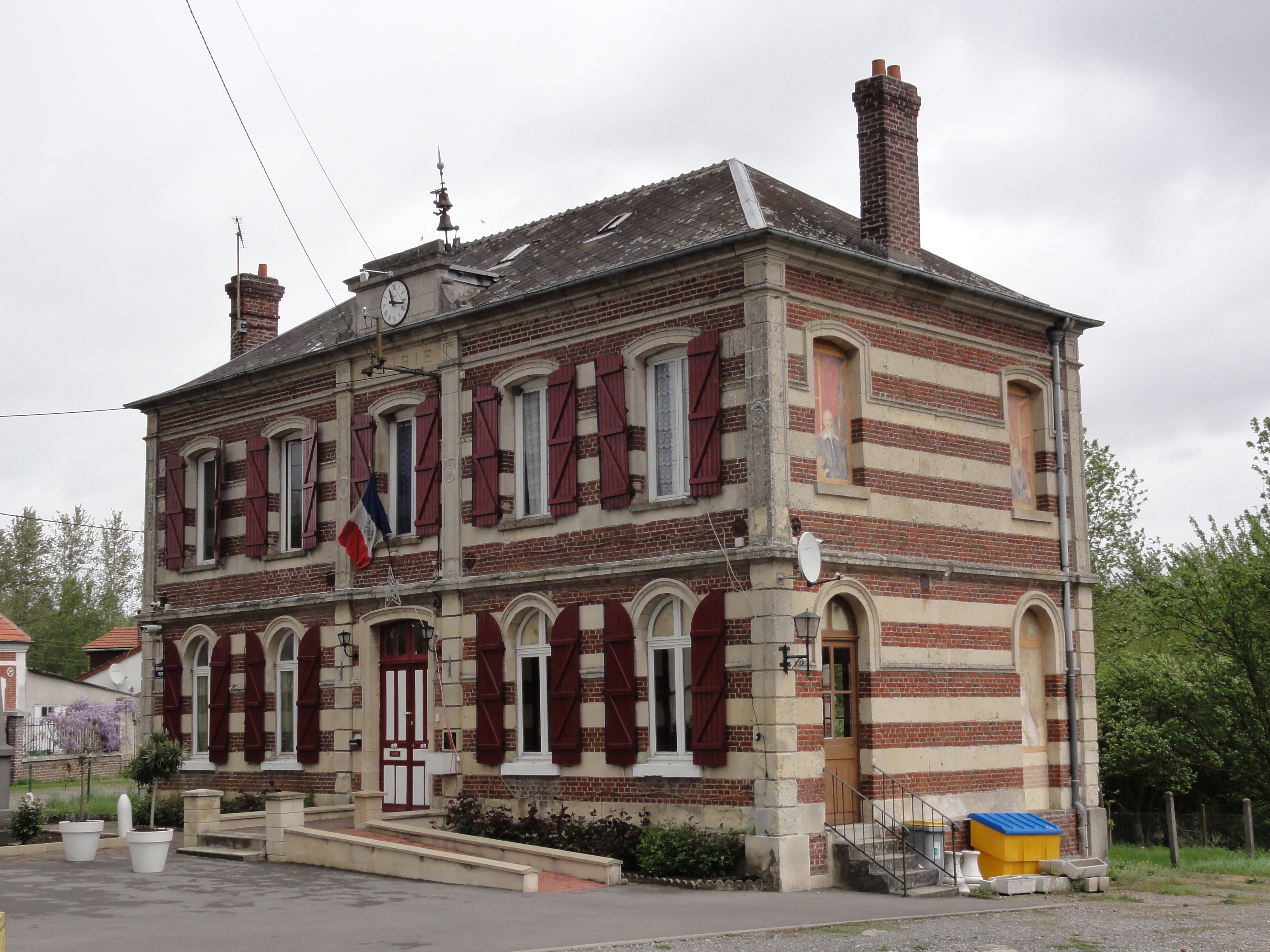 Fressancourt (Aisne) mairie